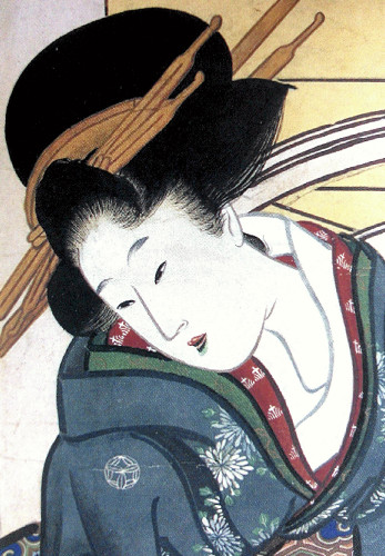 Detail of the ukiyo-e painting Fukagawa no Yuki